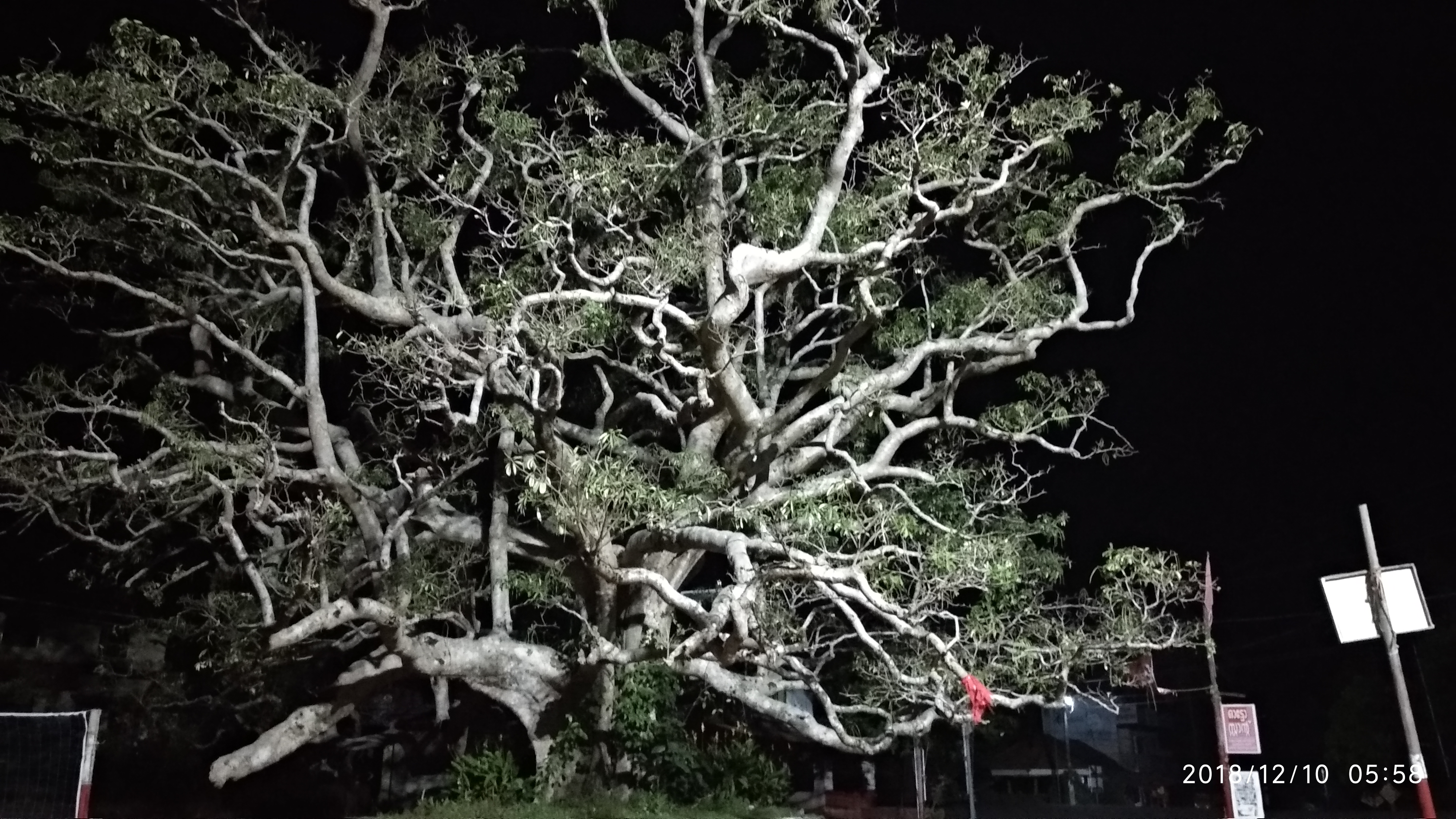 Alstonia scholaris- A night view of the plant at Madikai Ambalathukara